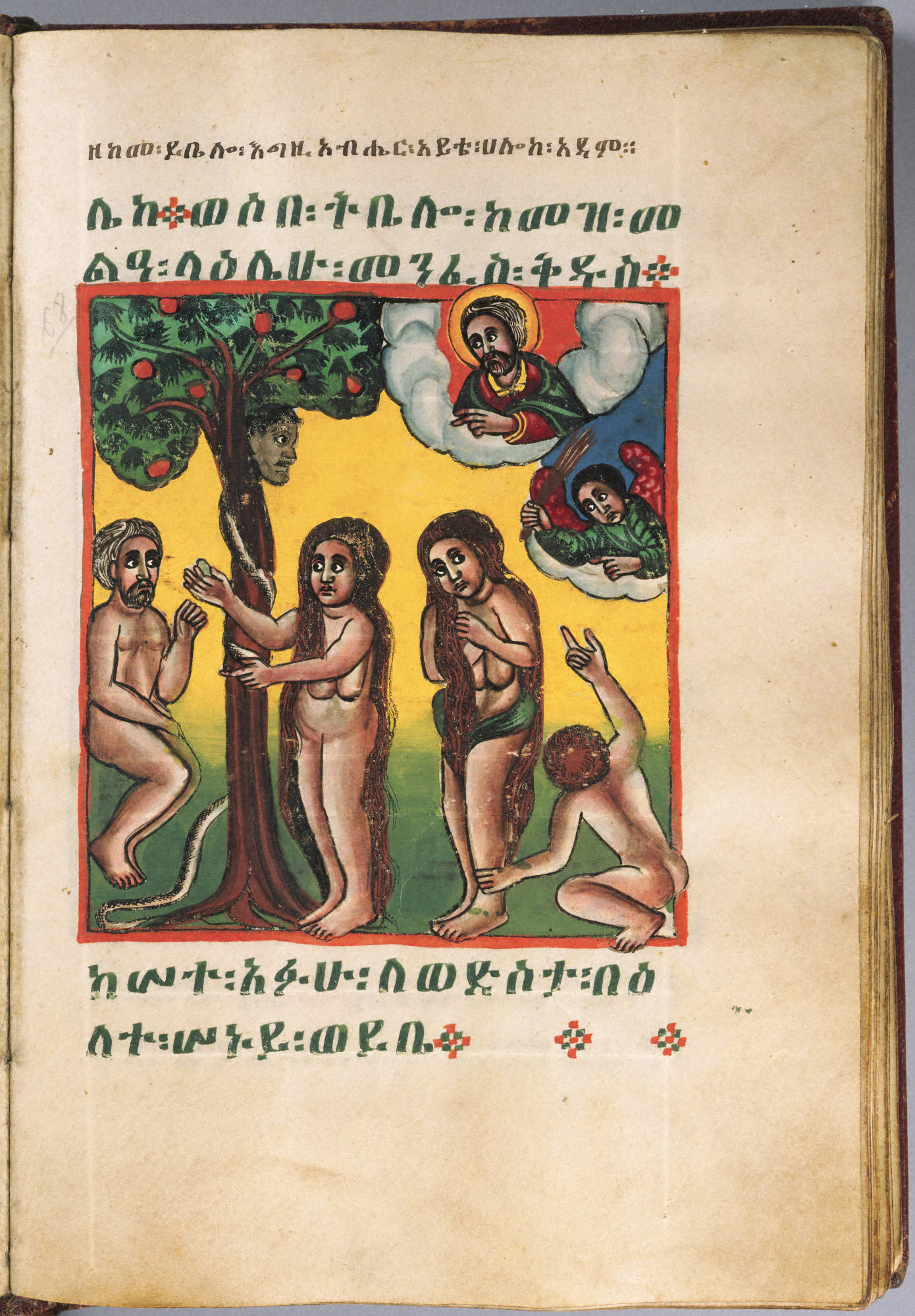 Ethiopian Illuminated Manuscript, 18th century Vellum, tempera, and leather binding 32 x 22 x 6 cm. (12 5/8 x 8 11/16 x 2 3/8 in.) Gift of Frank Jewett Mather Jr. Place made: Ethiopia y1951-28 The Ethiopian Christian community traces its roots to the fourth century, when the emperor of Aksum converted to Christianity. Shortly afterward, Christian texts were translated into Ge’ez, the liturgical language of Ethiopia, and new religious tracts were composed. This illuminated manuscript contains songs of the prophets, praises of Mary, psalms, and prayers, as well as legendary and apocryphal accounts of Mary. Of exceptional quality, it likely was manufactured at the royal scriptorium in the capital, Gondar. A hand-drawn image included with the manuscript indicates that Emperor Mənilək II may have acquired it to give to his wife, Queen Taytu Betul have represented the triumph of good over evil in the Ethiopian Orthodox Church since the thirteenth century.